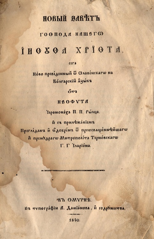 Neofit Rilski made the first popular translation of the New Testament in modern Bulgarian language (not a mixture between Church Slavonic and vernacular elements), commissioned, edited and distributed by the American missionary Elias Riggs.